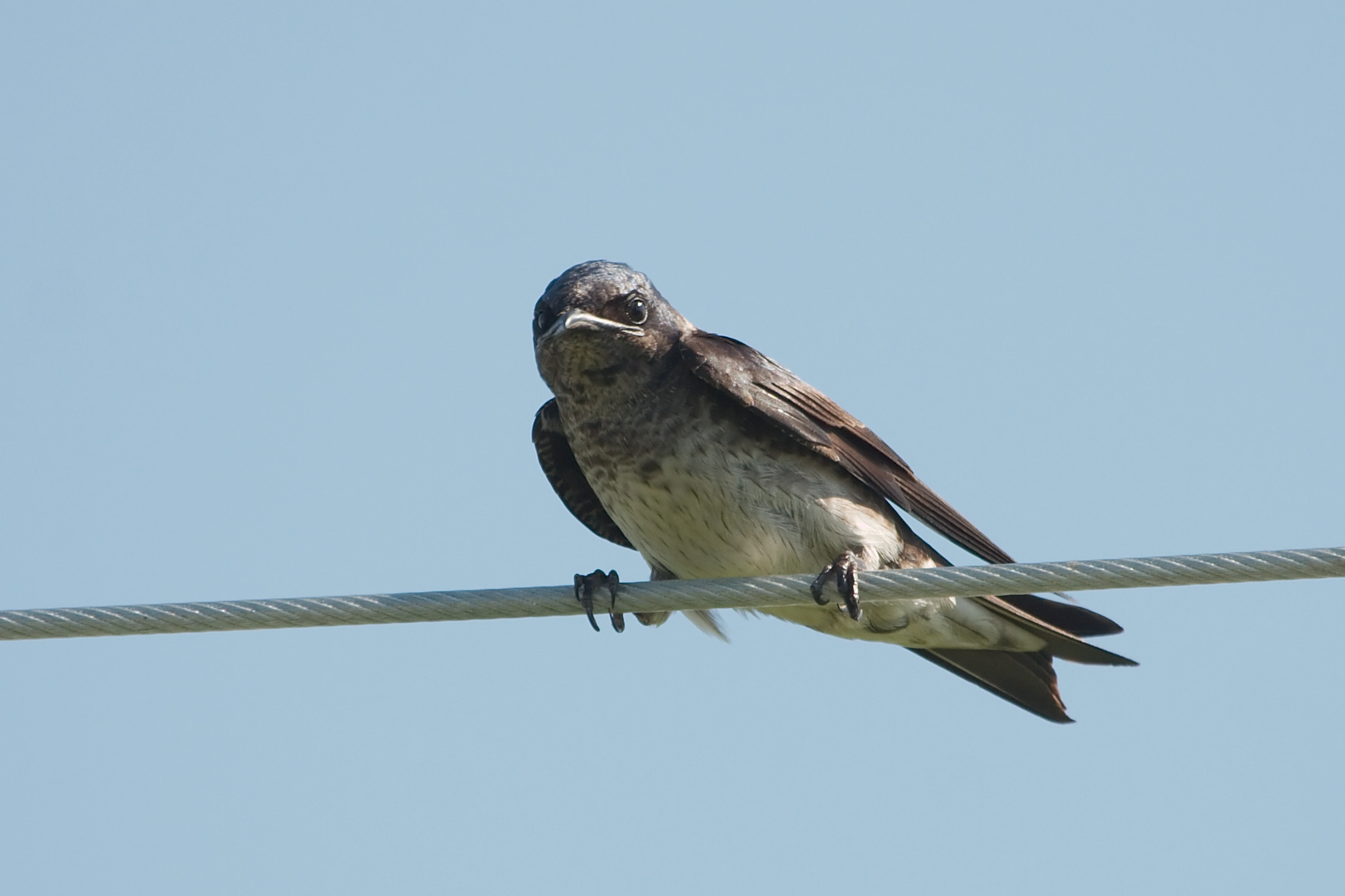 A Purple Martin (Progne subis), taken at the Horicon National Wildlife Refuge, Wisconsin